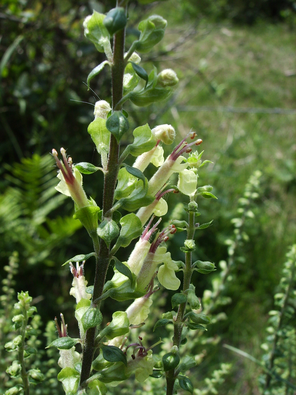 This photo shows teucrium scorodonia'